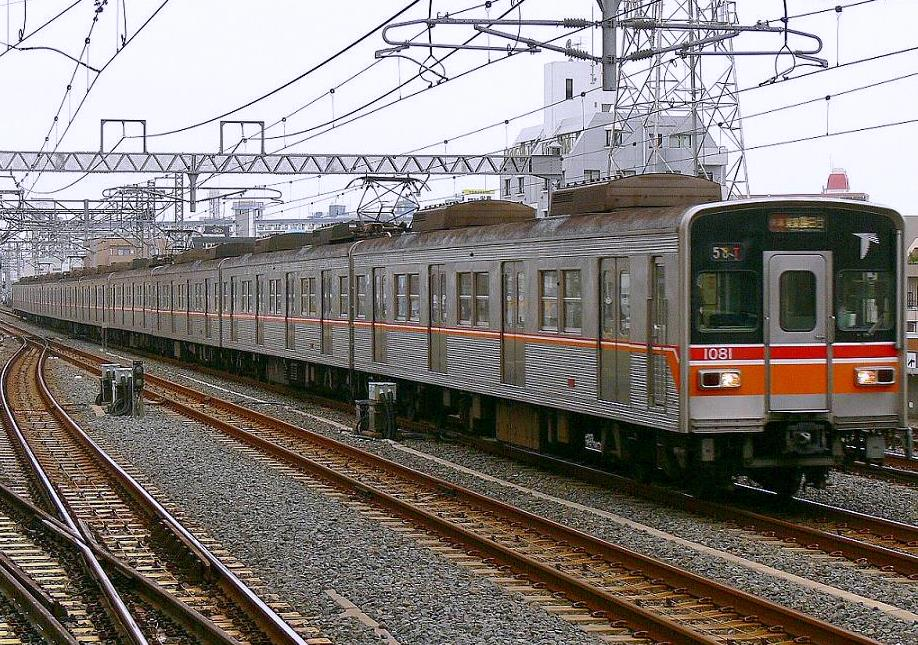 Tōyō Rapid 1000 series EMU set 1081 approaching Toyo Kasai Station